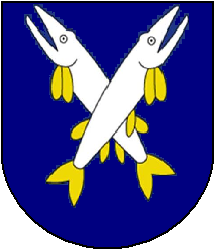 Coat of arms of the municipality of Seedorf, Canton of Uri, Switzerland